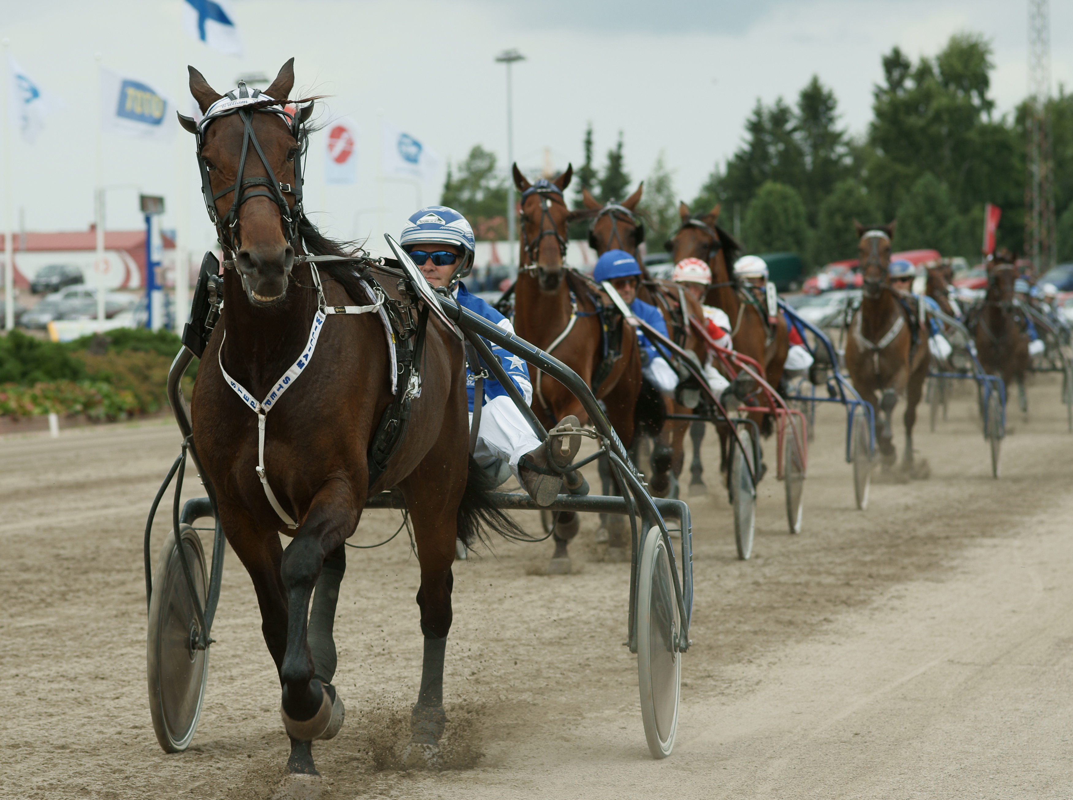 Harness racer Ari Kela with William Step.